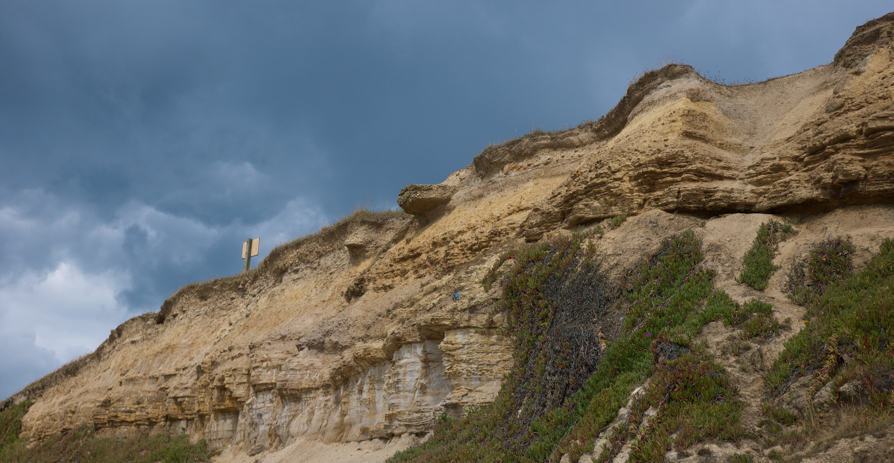 Cliffs by beach at Bexhill-on-Sea in England. The sedimentary rocks of the cliff belong to the Wealden Group of rocks and they were formed about 139 to 134 million years ago during the Early Cretaceous Epoch of the Earth's geological history.